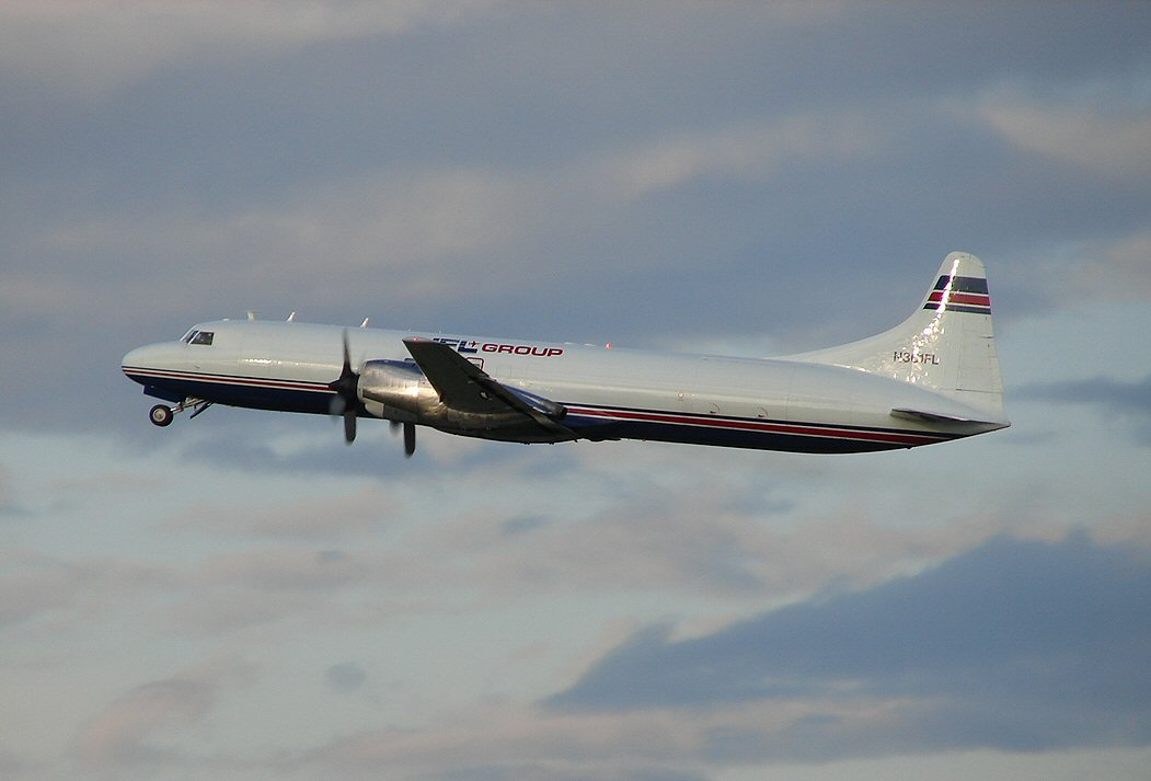 cleaning up that gear